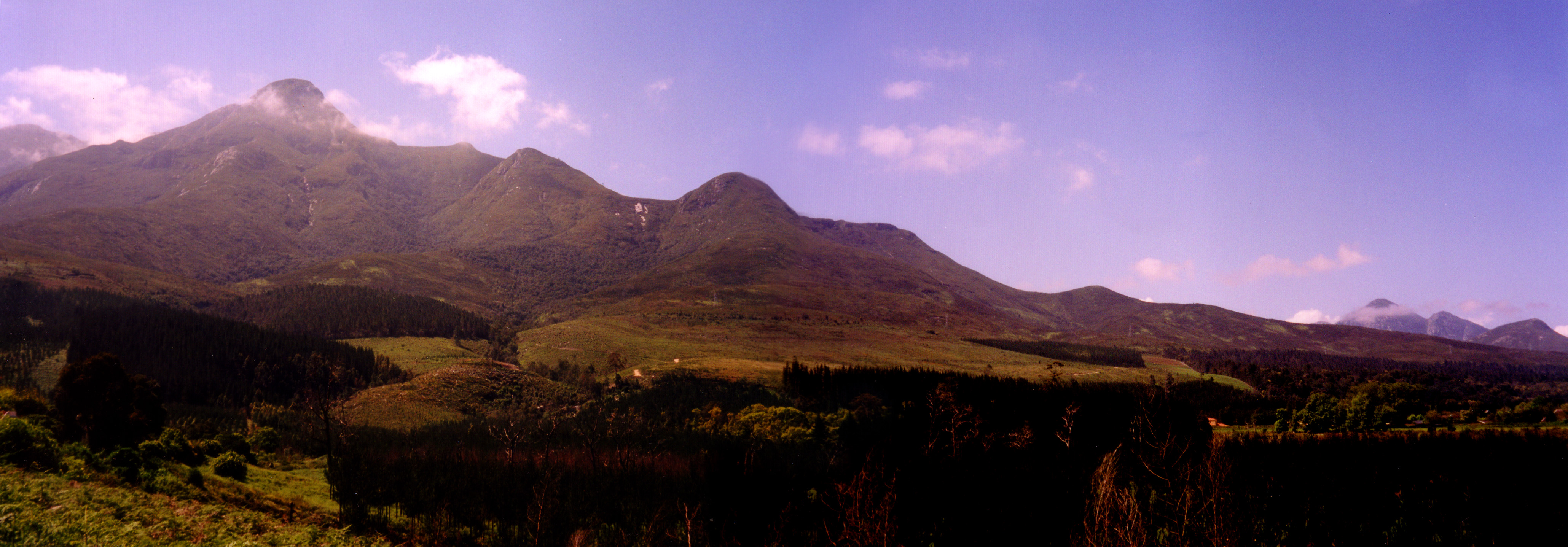 Taken by myself, Andres de Wet